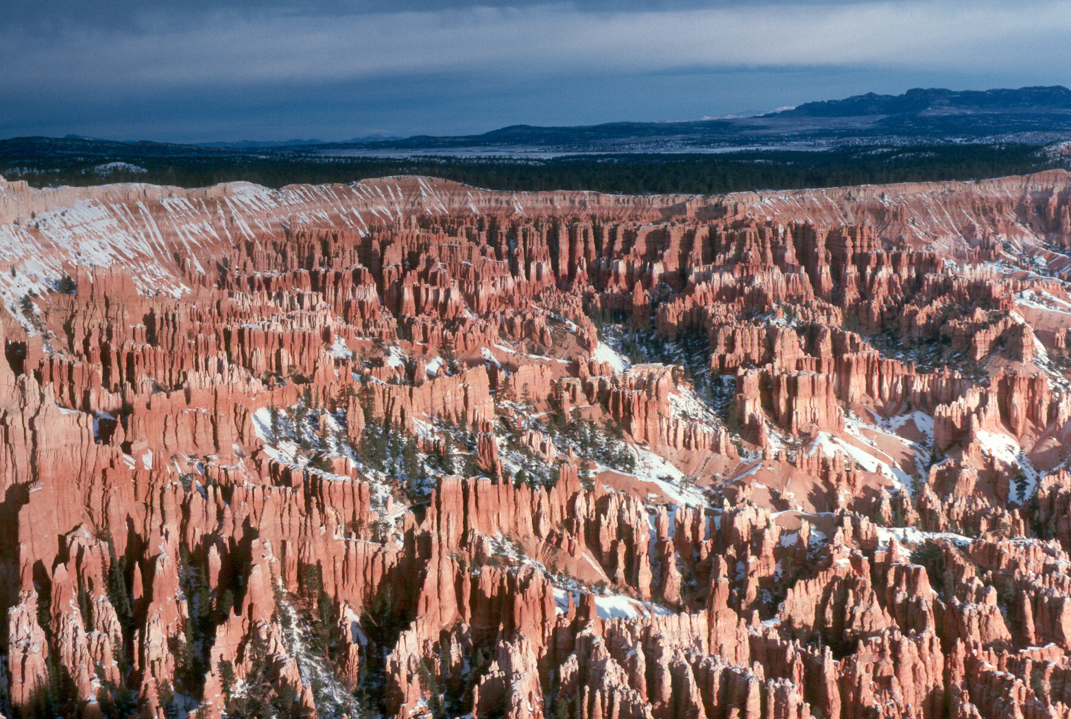 Bryce Canyon, amphitheater in the morninglight